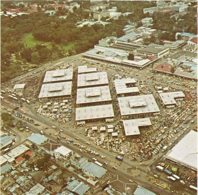 Le Grand Marche, Kinshasa, in 1974